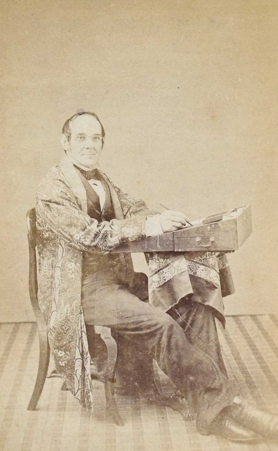 Samuel C. Damon, first editor of The Friend. Carte de visite by Henry L. Chase.